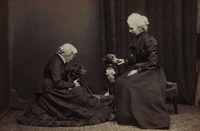 Elizabeth Blackwell, 1905 Courtesy of Blackwell Family Papers, Schlesinger Library Photograph of an older Elizabeth Blackwell with her adopted daughter Kitty and two dogs, 1905.